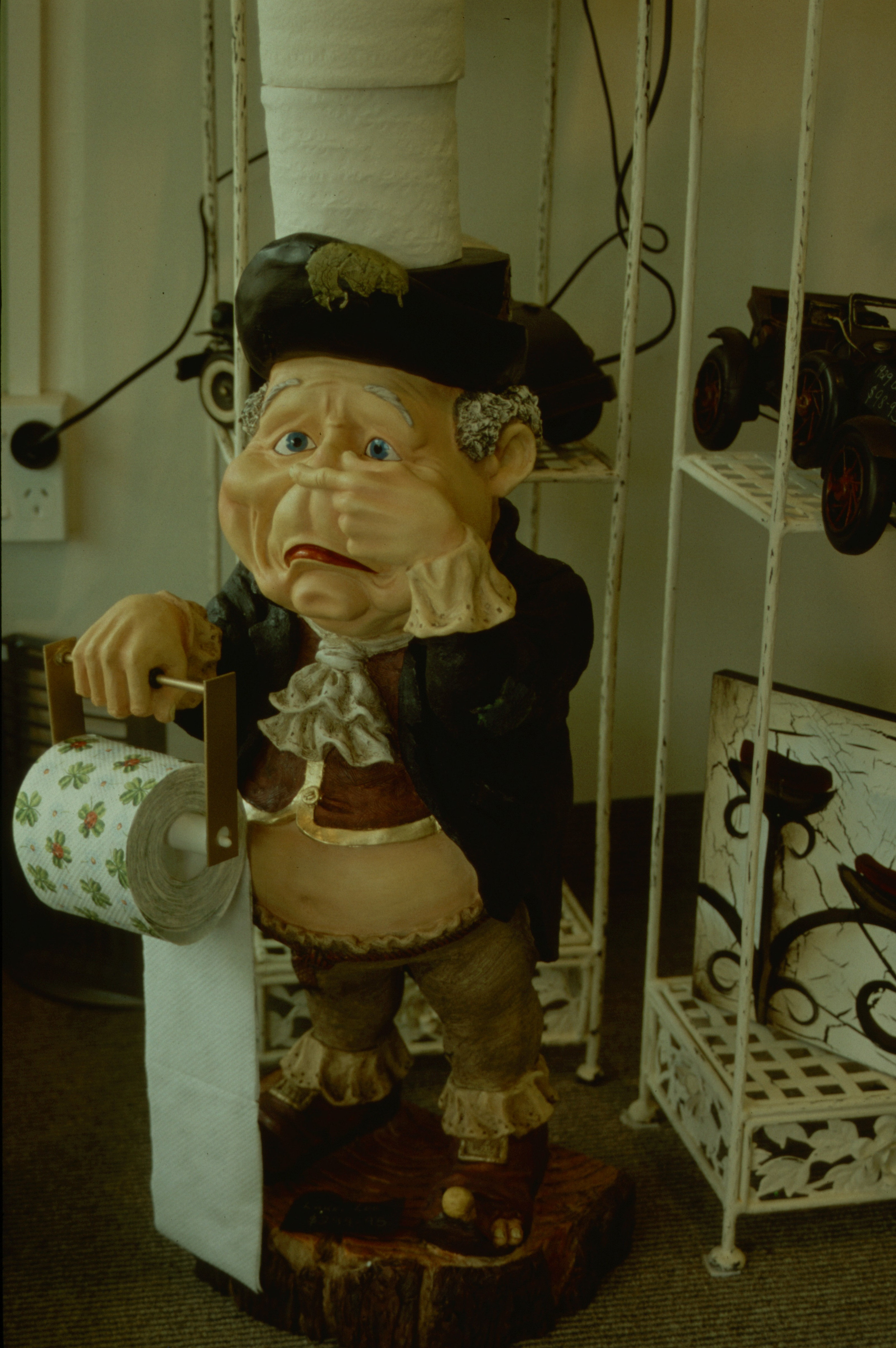 Toilet paper holder in a New Zealand shop